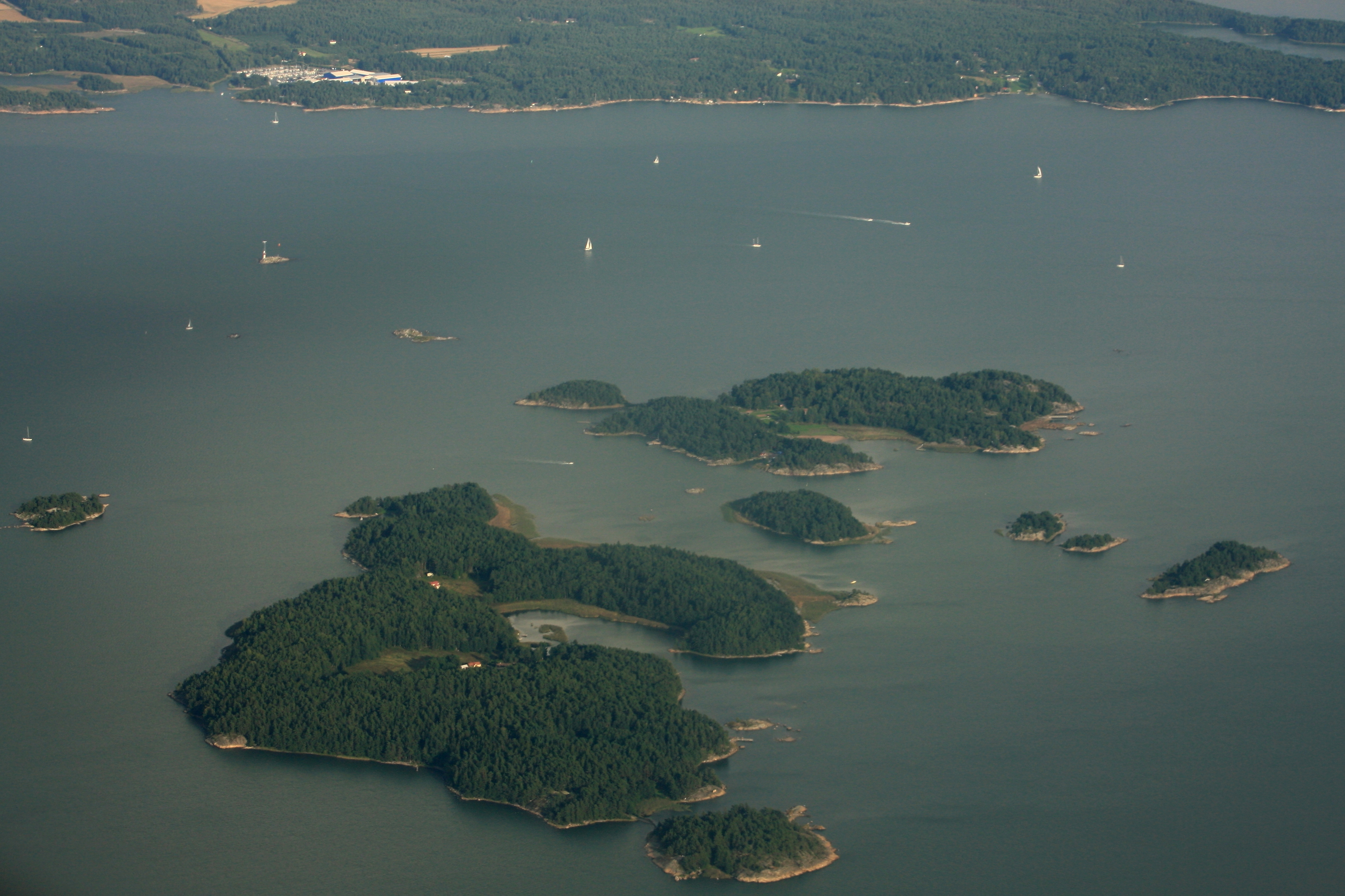 An aerial photograph of Archipelago Sea, islands Kaarnitta and Vepsä near Turku, Finland, seen from northwest.